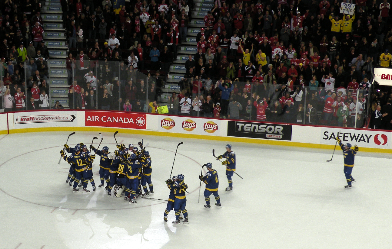 Team Sweden celebrates after scoring the winning goal in overtime against Team Russia on December 31, 2011. The game, played at the Scotiabank Saddledome in Calgary, Alberta, Canada, clinched first place in pool A at the 2012 World Junior Hockey Championship.